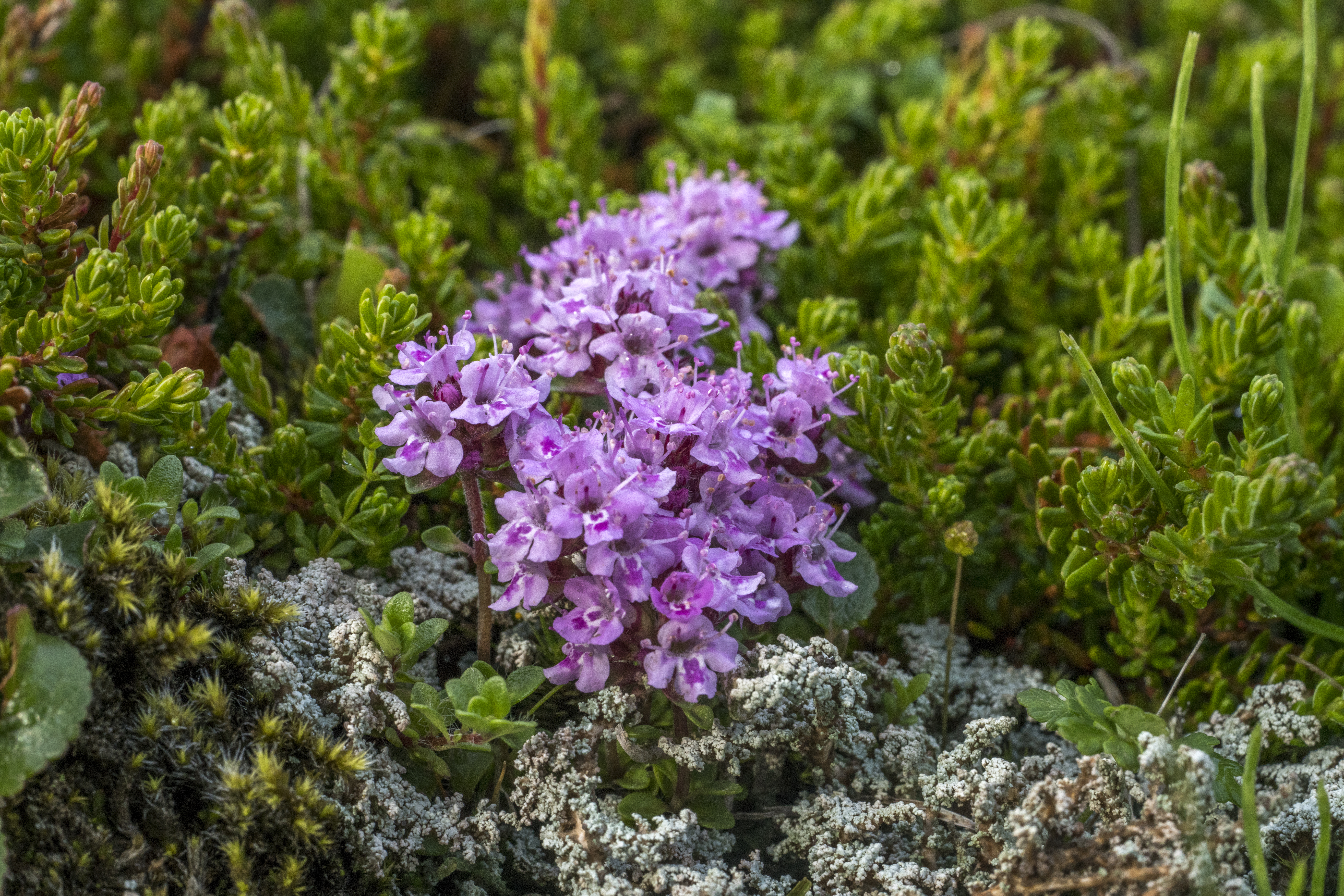 The mother of thyme Thymus praecox, (Iceland)